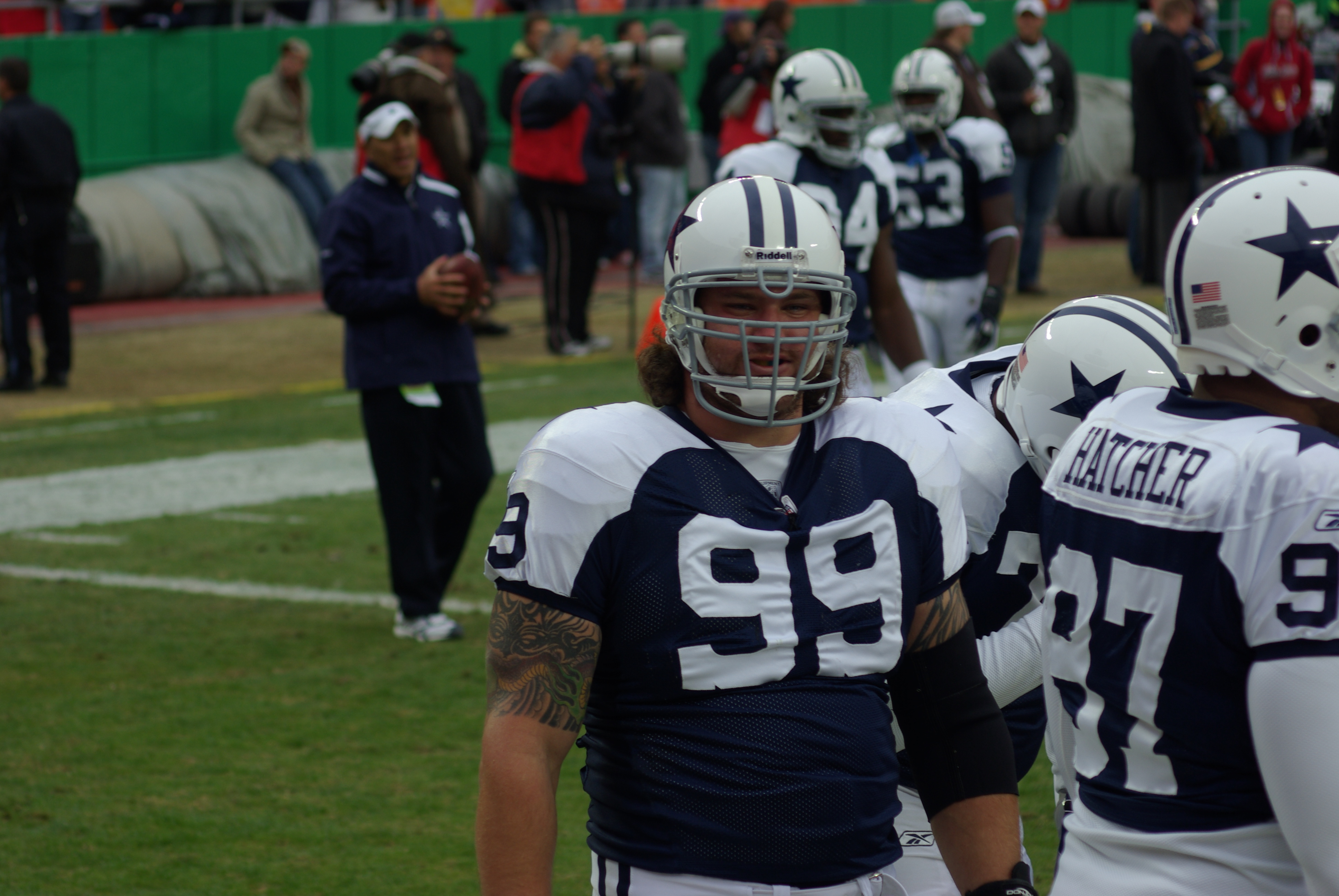 Igor Olshansky, American football player